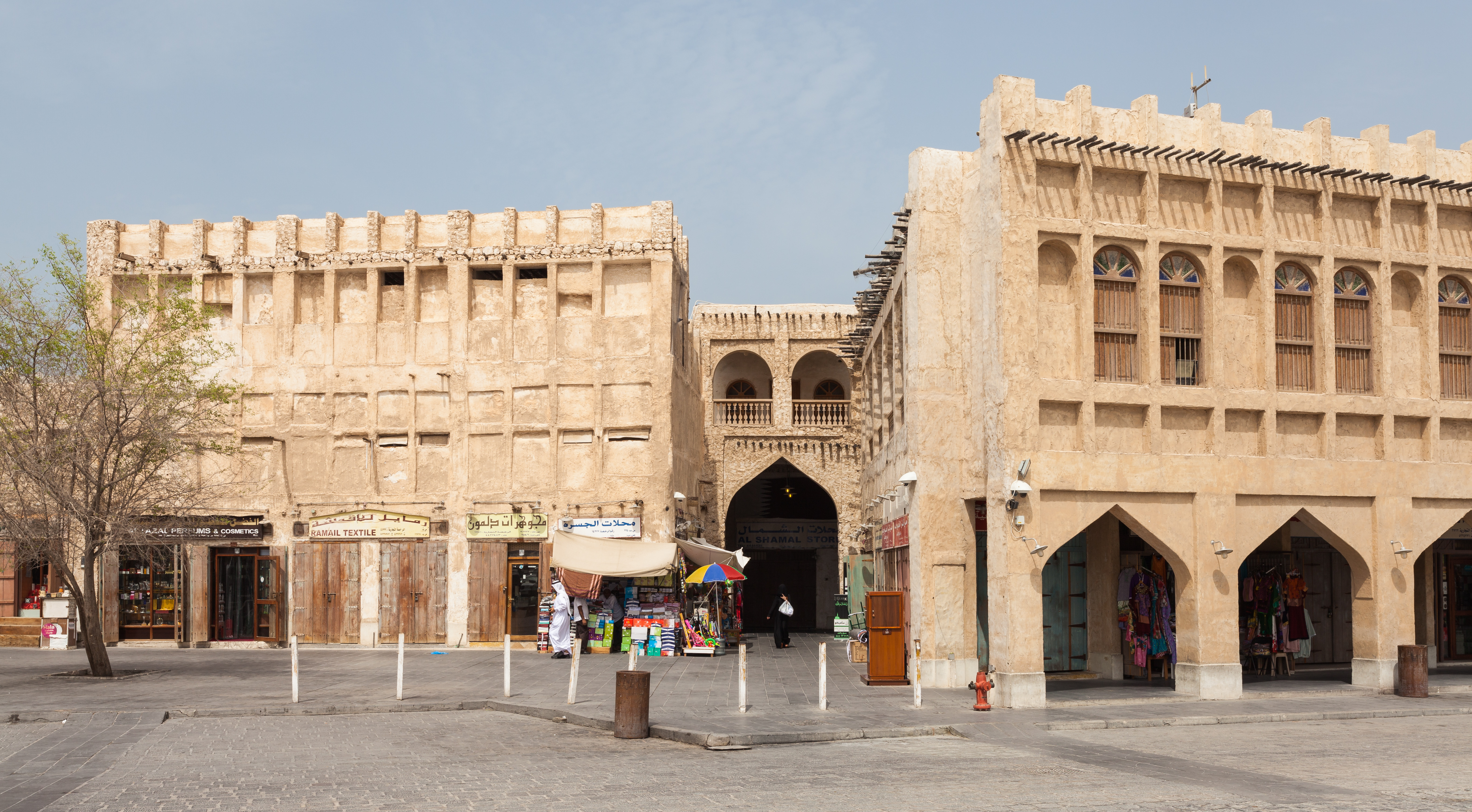 Souq Waqif, Doha, Qatar